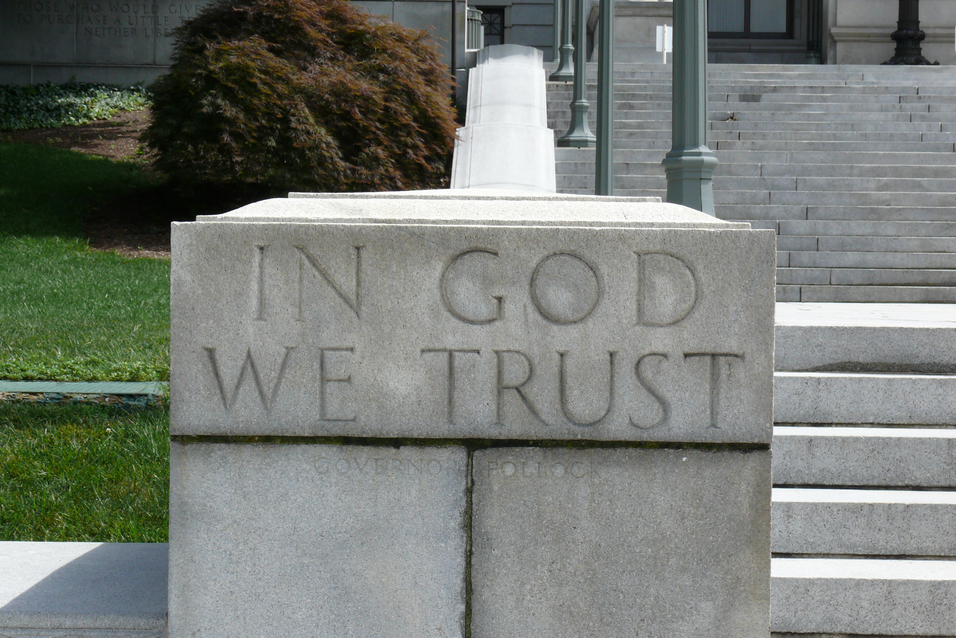 The Pennsylvania State Capitol was designed in 1902, in a Beaux-Arts style with Renaissance themes throughout. It is located in downtown Harrisburg.